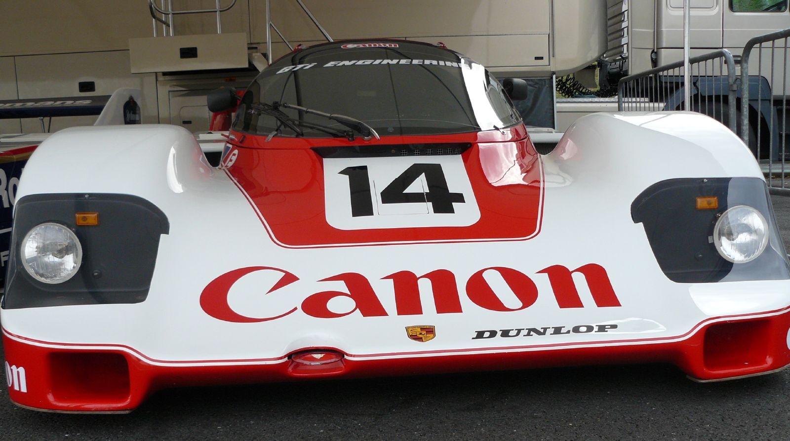 GTi Engineering's Porsche 956 GTi at the 2007 Silverstone Classic